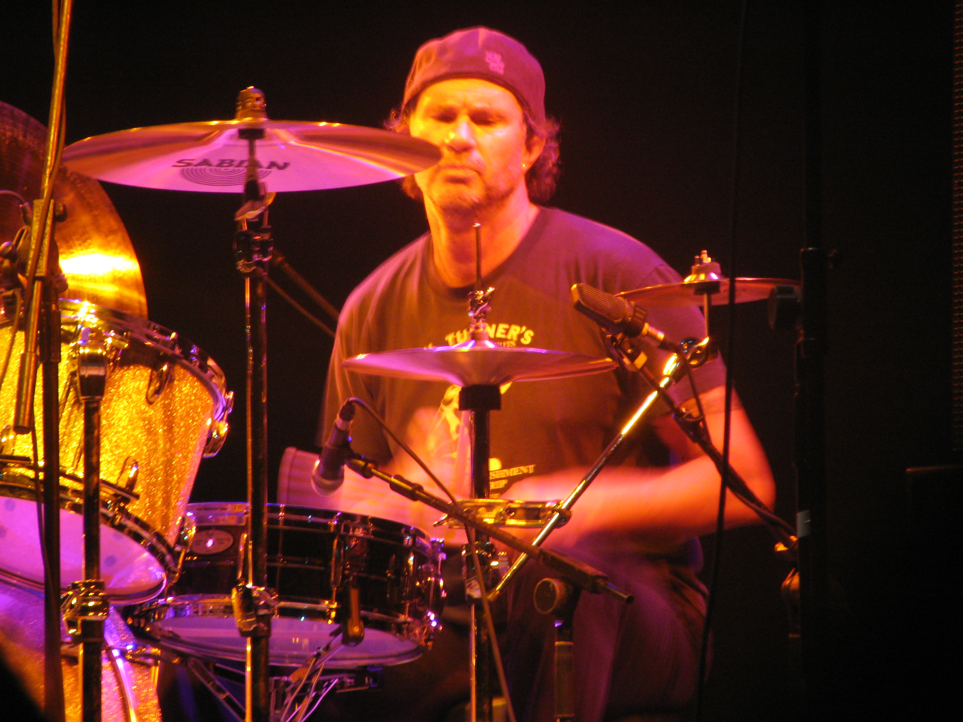 Chad Smith drumming at the London Guitar Show 2008